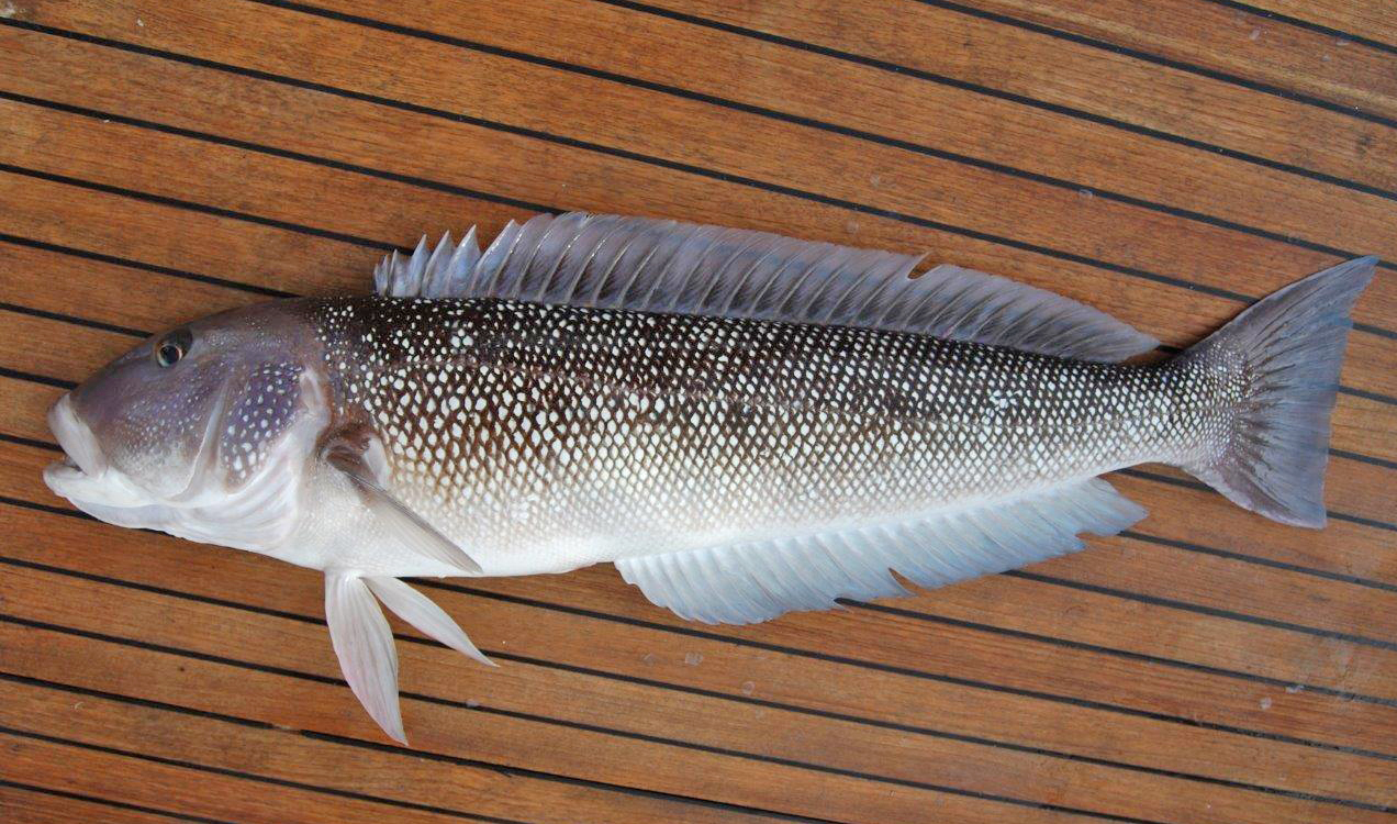 Brazil, Rio de Janeiro, August 09 2009, 85cm, by Fernando Mistrorigo de Almeida